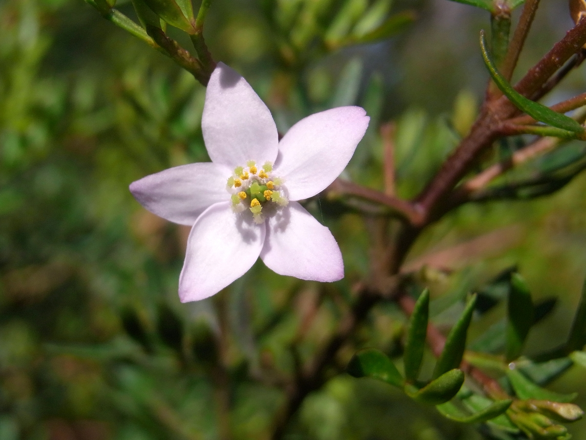 Boronia imlayensis, 5 petaled flower. Photo identified by Marco Duretto. Mount Imlay, Australia